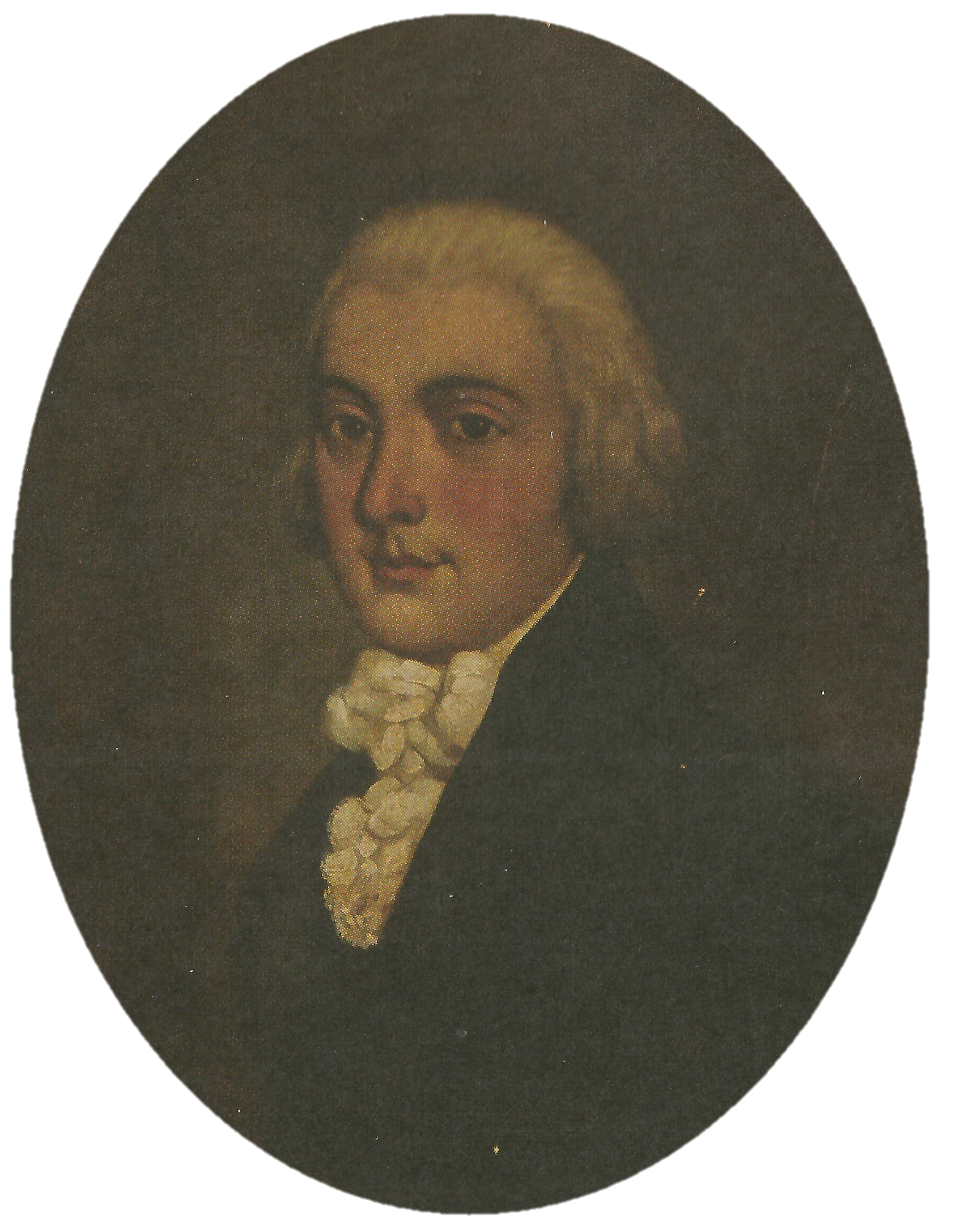 18th-century portrait of a young Marcos Portugal (1762-1830), composer.